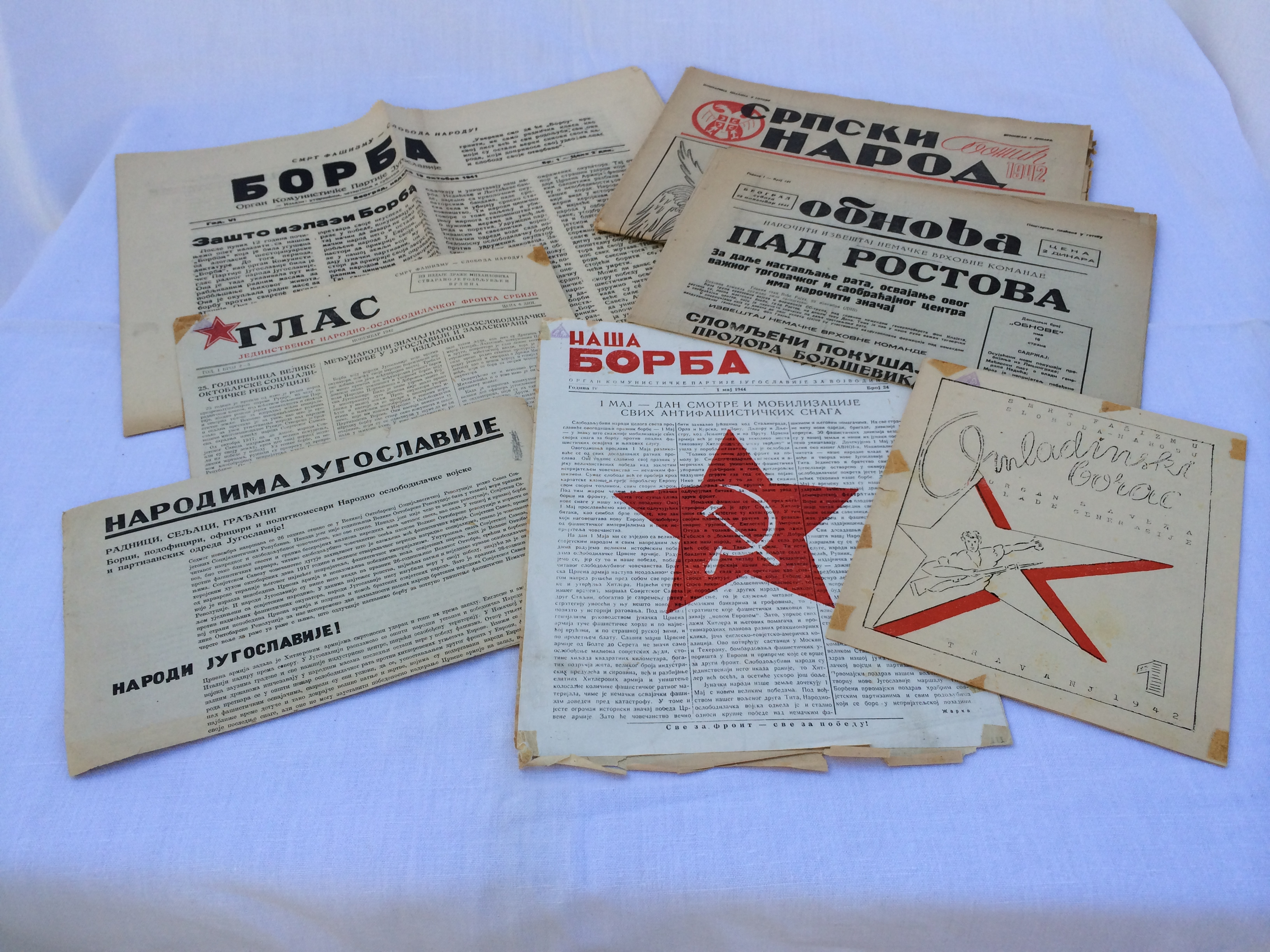 World War II Serbian magazines; They can be found in the Society for Culture, Art and International Cooperation Adligat in Belgrade, Serbia. Српски (ћирилица): Ратна издања часописа из Другог светског рата; Налазe се у Удружењу за културу, уметност и међународну сарадњу Адлигат у Београду.